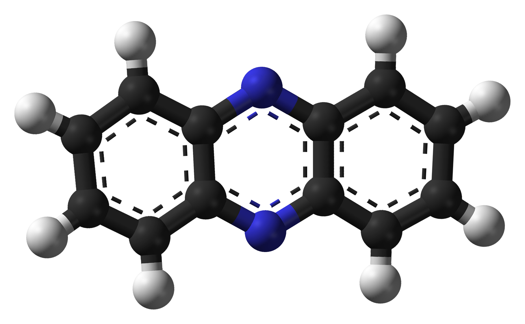 Ball-and-stick model of the phenazine molecule, an aromatic heterocycle consisting of a pyrazine ring fused to two benzene rings.